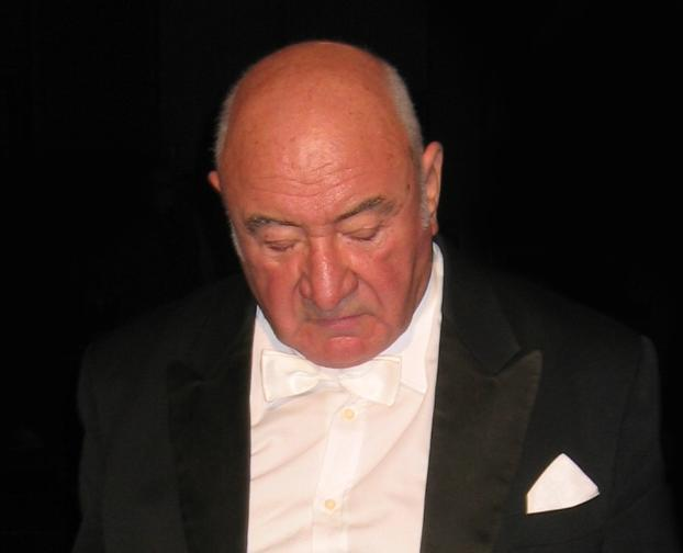 Anton Nanut, slovenian conductor (2005) photo:Ziga 13:09, 28 September 2006 (UTC)